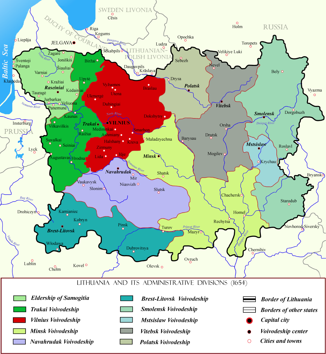 Vilnius Voivodeship (red) within Lithuania in the 17th century